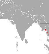 Kitti's Hog-nosed Bat (Craseonycteris thonglongyai) range